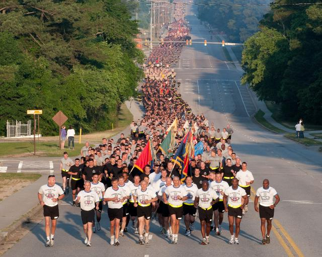 82d Airborne Division All-American Week Run which is the first activity of All-American Week celebration which concludes with 82D Abn Div Review